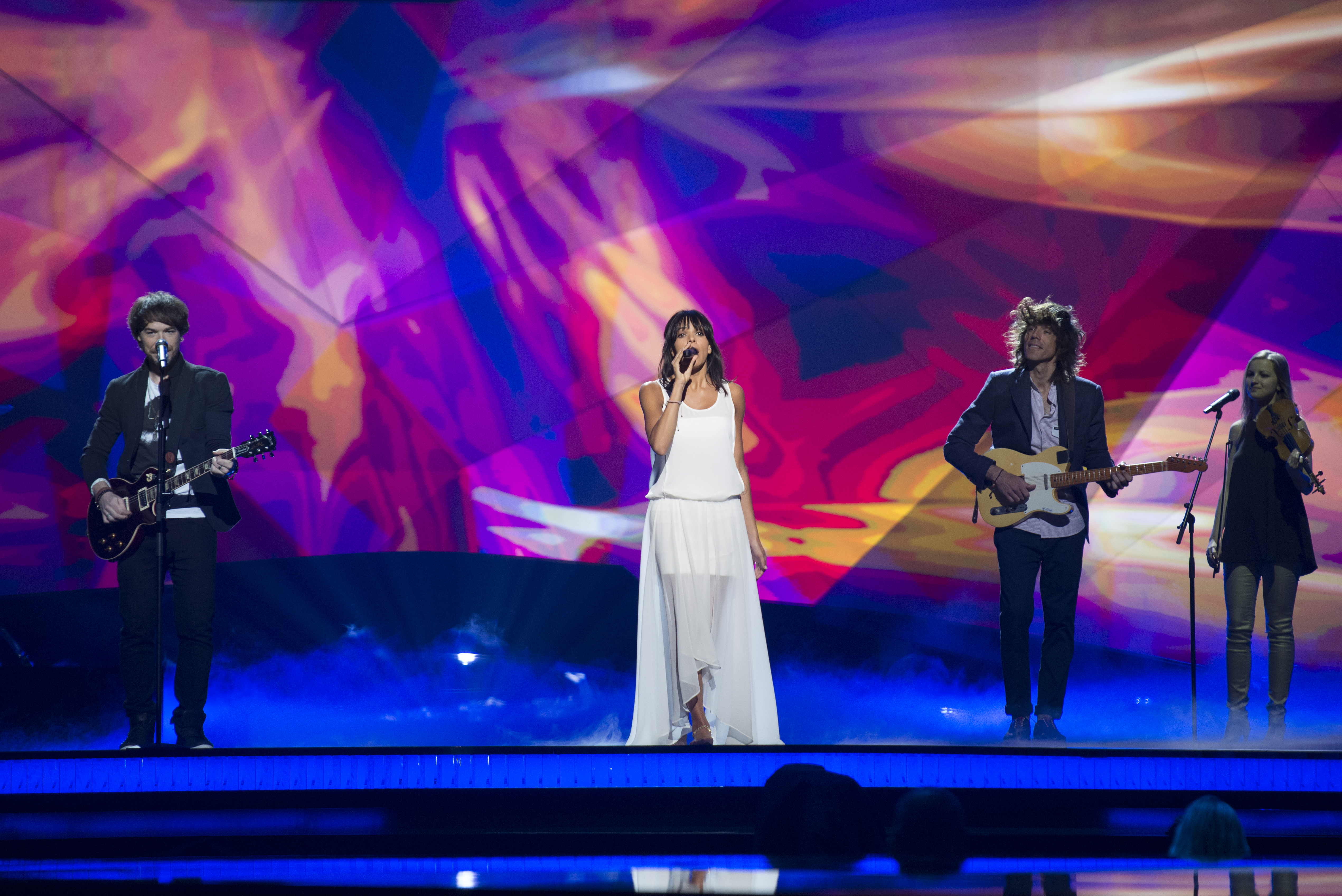 El Sueño de Morfeo representing Spain with the song "Contigo hasta el final" during the first dress rehearsal for "the Big Five" in the Eurovision Song Contest 2013 Malmö. (Help translate this text)